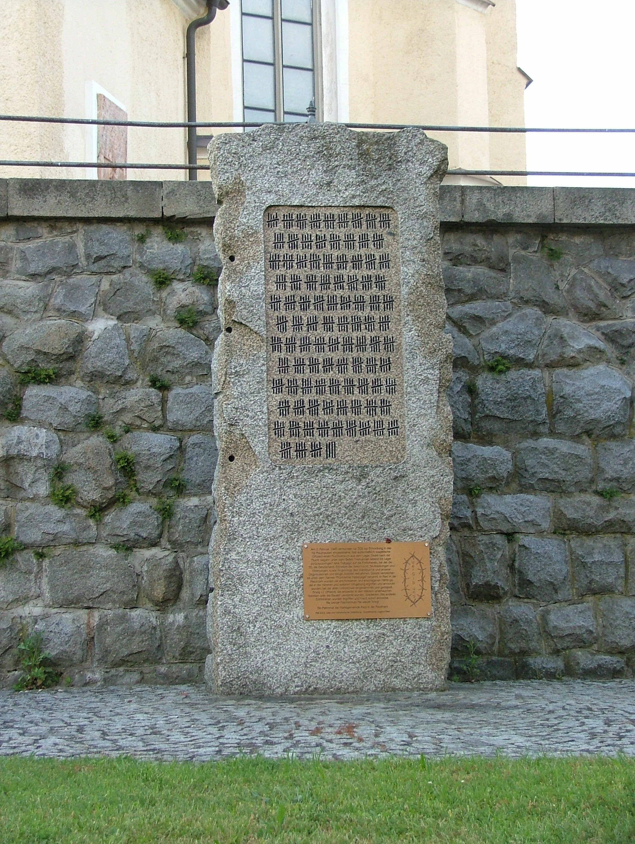 Memorial on the occasion of the so called "Mühlviertler Hasenjagd", a war crime perpetrated in Austria during World War II, where civilians hunted and murdered russian escapees from Konzentrationslager Mauthausen-Gusen. The memorial itself is in Ried in der Riedmark, where it was installed in May 2001 by the local Sozialistische Jugend